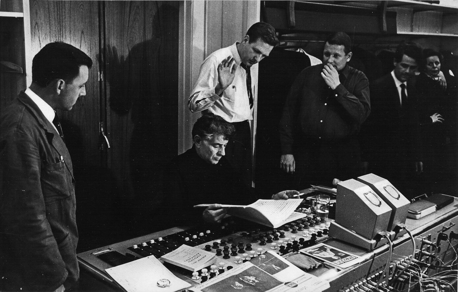 Audio recording for CBS of the 3. Symphony ("Sinfonia Espansiva") by Danish composer Carl Nielsen (1865-1931), commemorating his 100. birthday, in Copenhagen, in 1965. The tube mixing desk was the first designed and manufactured by Hans Leonhard, Zürich, Switzerland. It was purchased by Swiss studio owner Max Lussy and rented to CBS for this occasion. The persons from left to right are: Hans Leonhard, Leonard Bernstein, John McClure (Director of Columbia Masterworks and CBS chief recording engineer) and Hellmuth Kolbe.